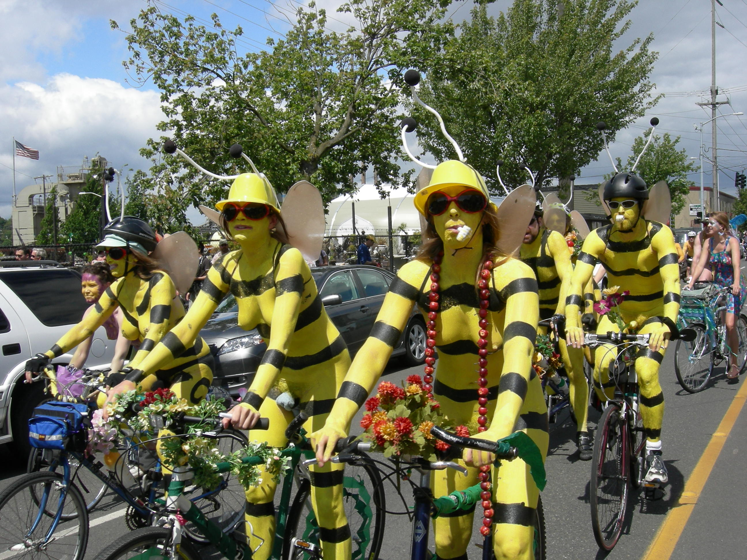 Body-painted naked cyclists (in this case, mostly painted as bees), a longstanding tradition in the Summer Solstice Parade and Pageant, Fremont Fair, Seattle, Washington.